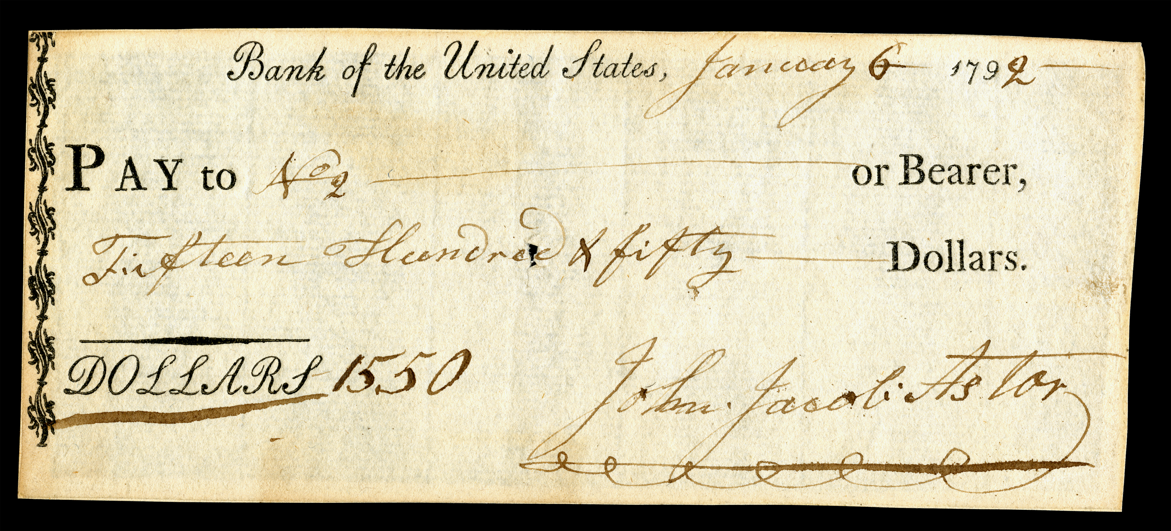 John Jacob Astor (Financier), signed check.